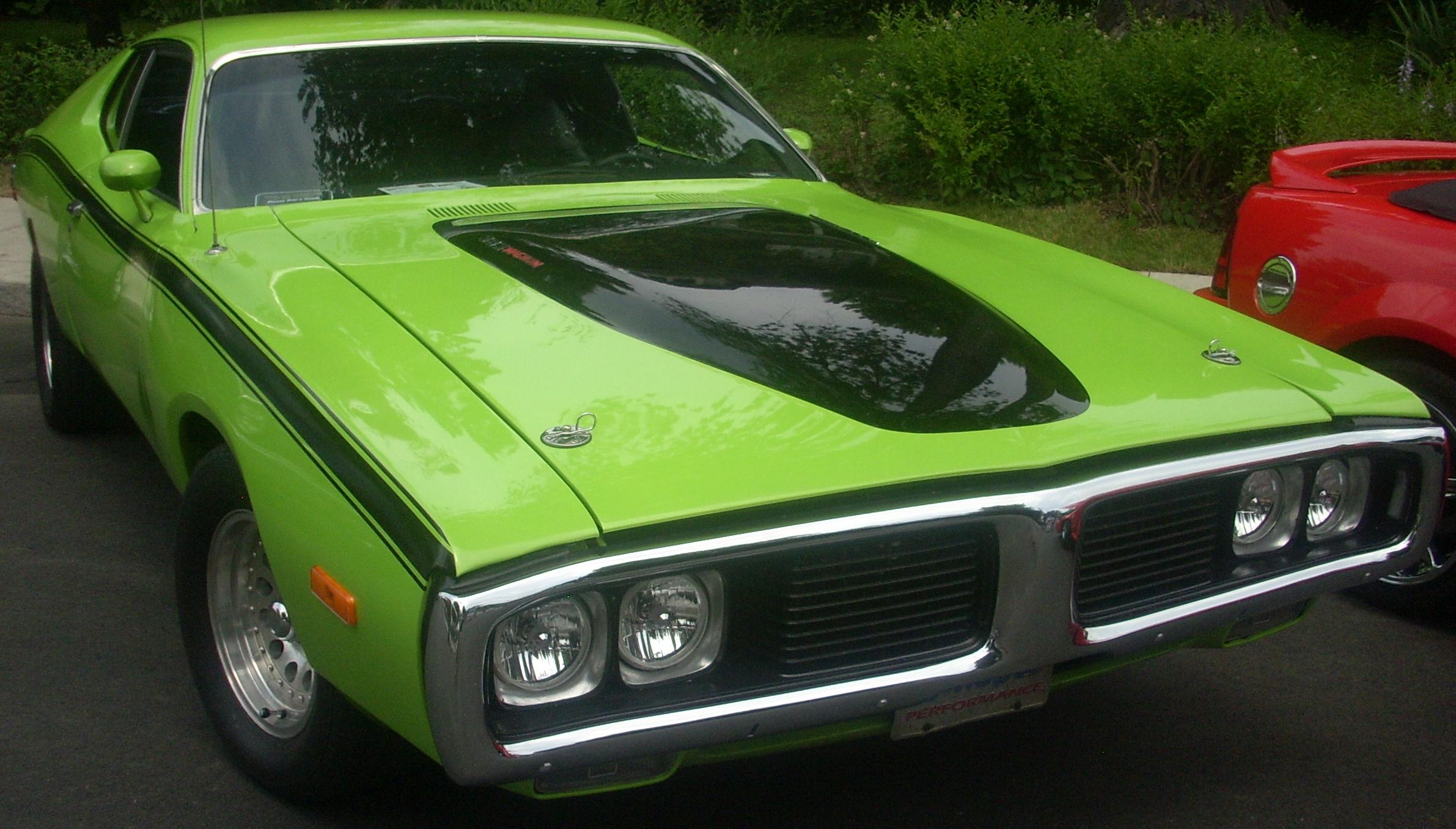 1973 Dodge Charger photographed in Ste. Anne De Bellevue, Quebec, Canada at Cruisin' At The Boardwalk 2010.